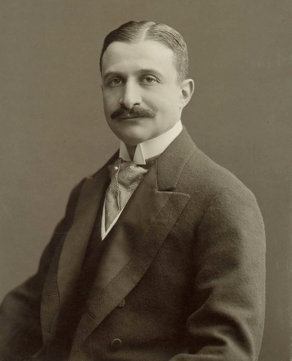 Depicted person: Josef Sachs